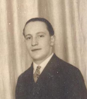 Lyuben Vladigerov, Prague, 23-25.03.1928.